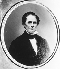 Photo of Illinois Senator David J. Baker.